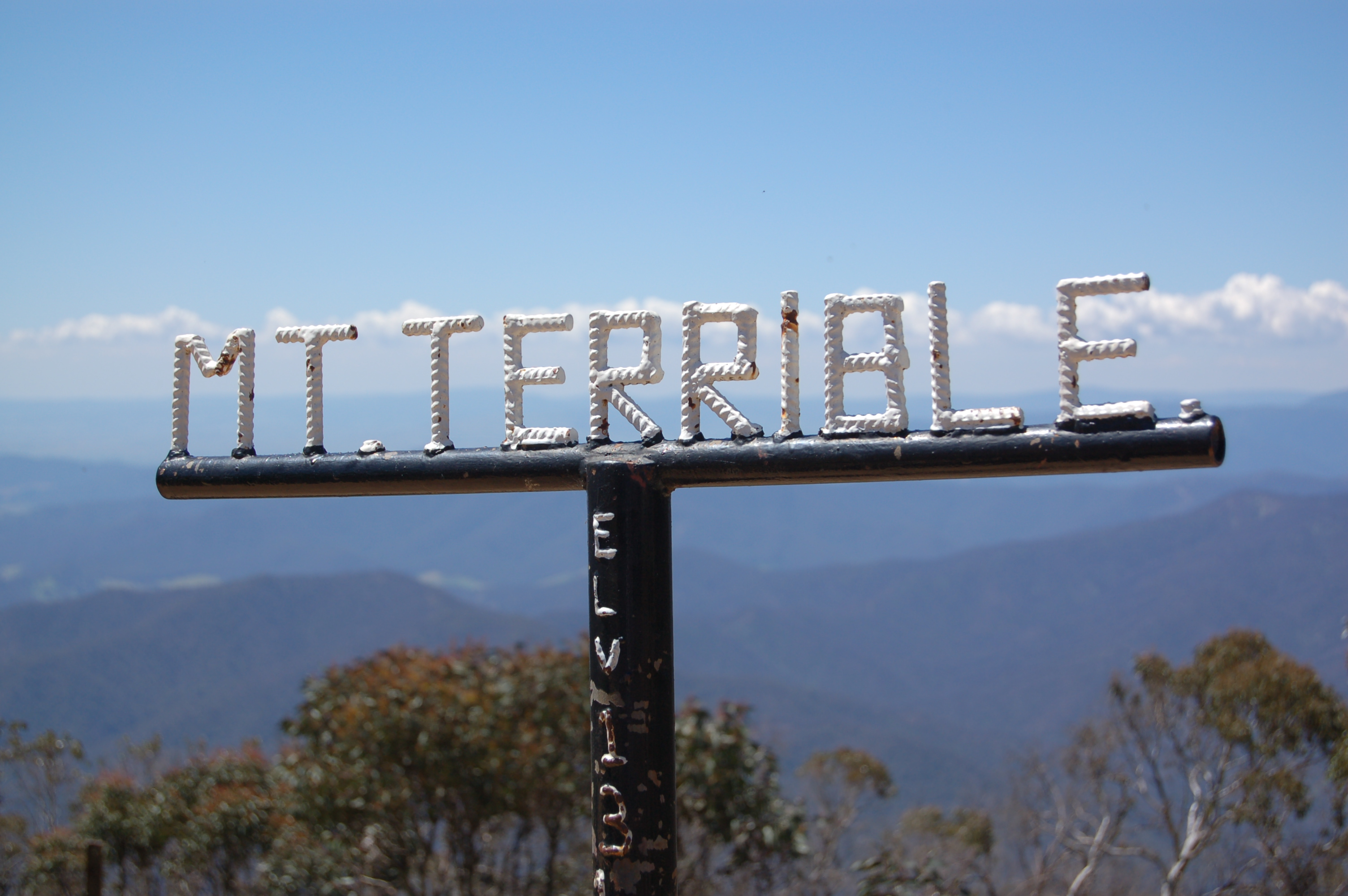 View of the marker sign at Mount Terrible, Victoria, Australia.